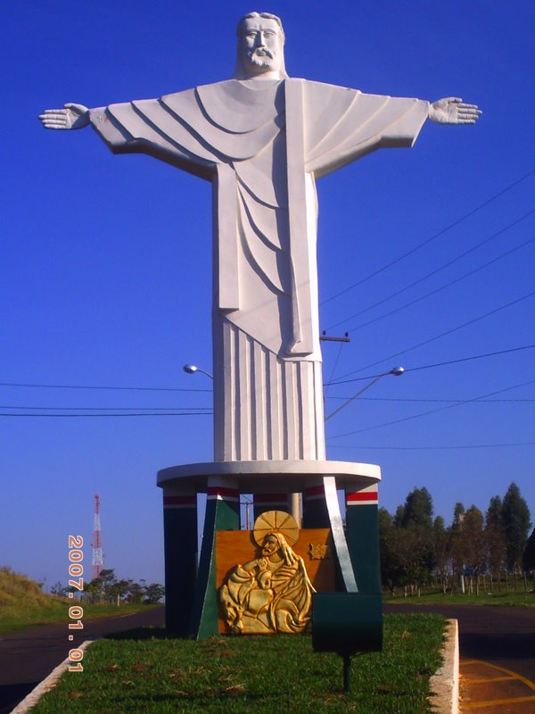 Christ, Mirante do Paranapanema